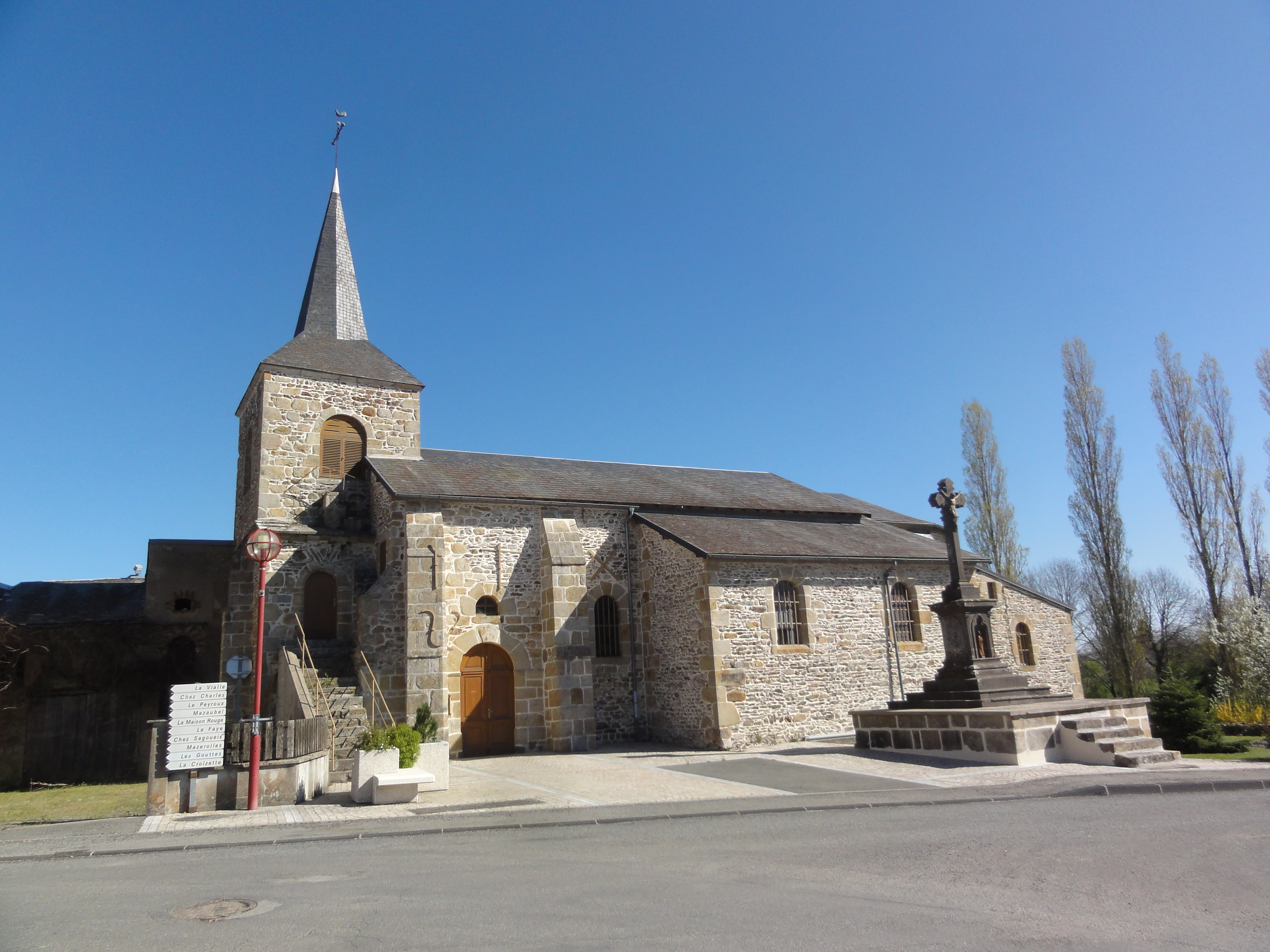 Teilhet (Puy-de-Dôme) église